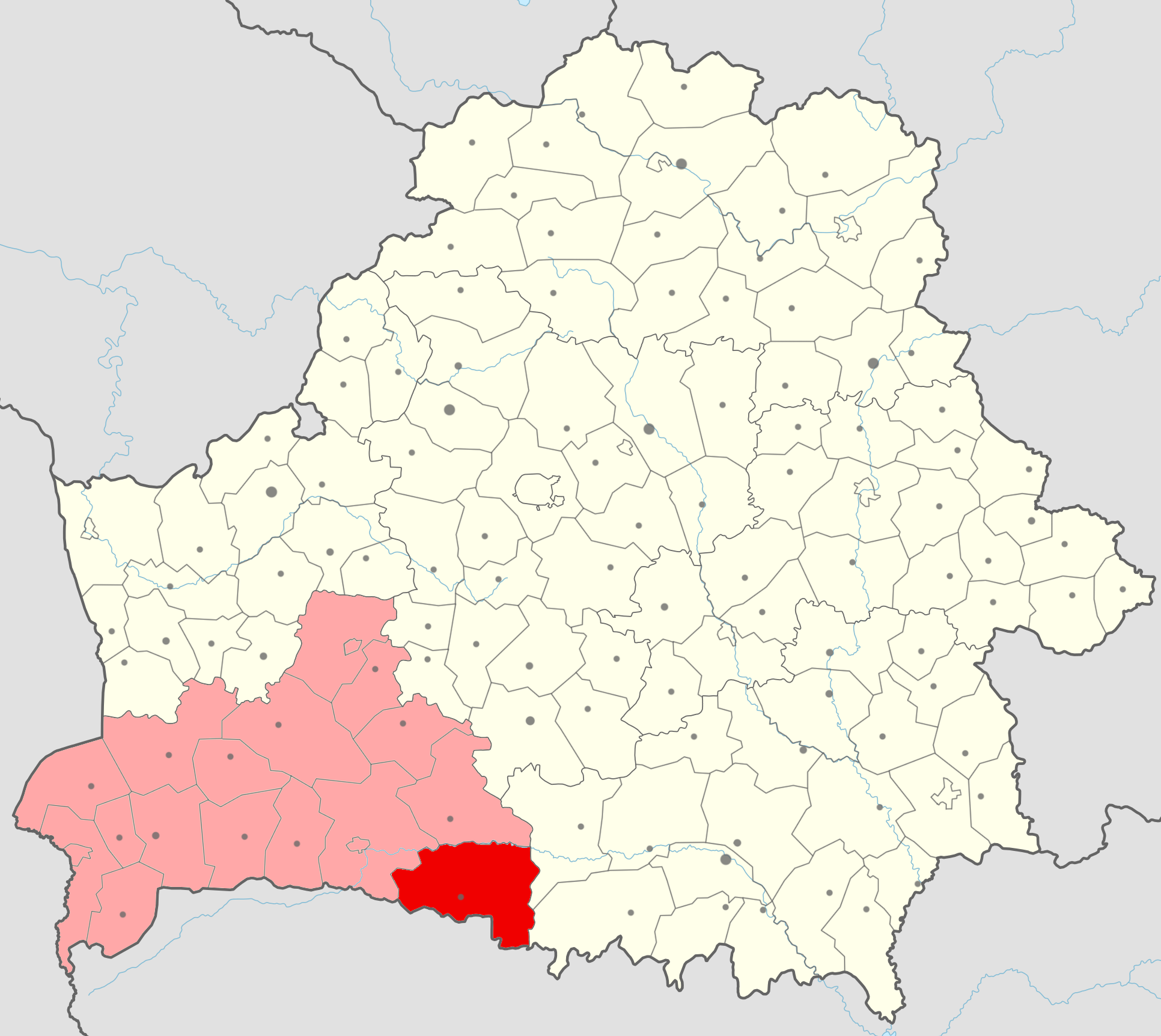 Location of Stolinski rajon (red) in Bresckaja voblasć (light red) in Belarus.